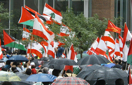 Montréal protesters wave Lebanese flags during the 2006 Israel-Lebanon conflict.